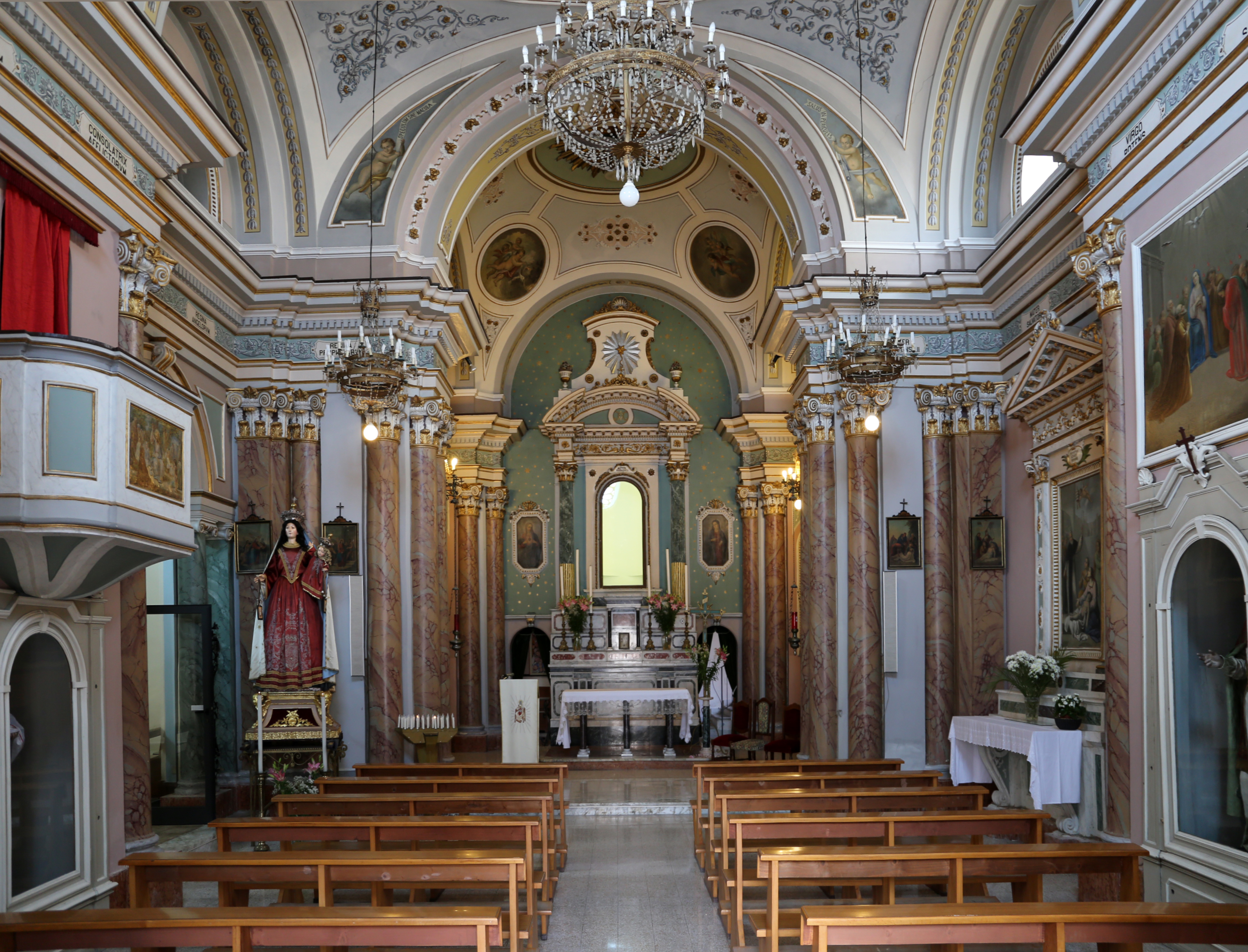 Santa Maria del Carmine (Guardiagrele)